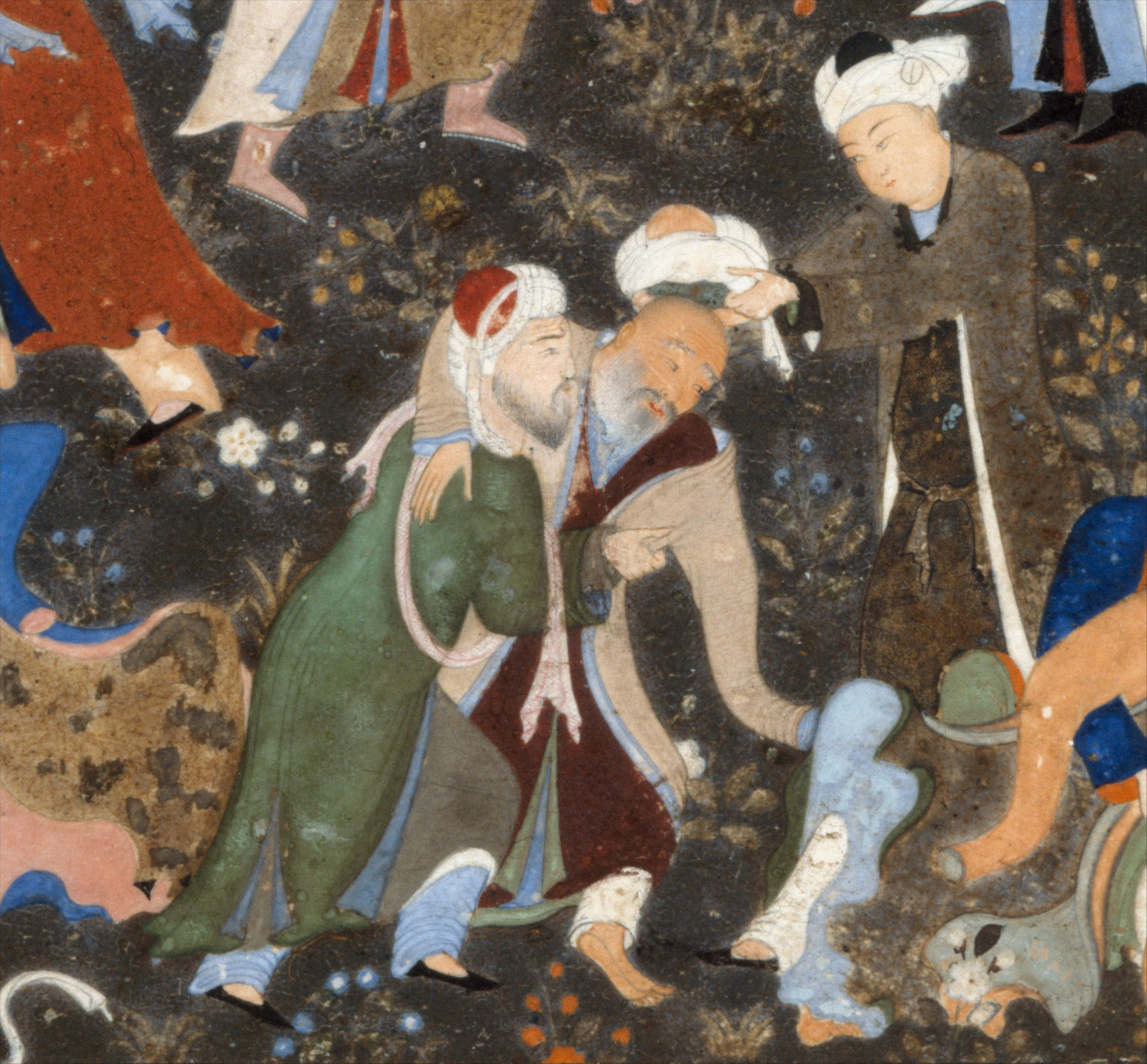 Folio from an illustrated manuscript; Codices